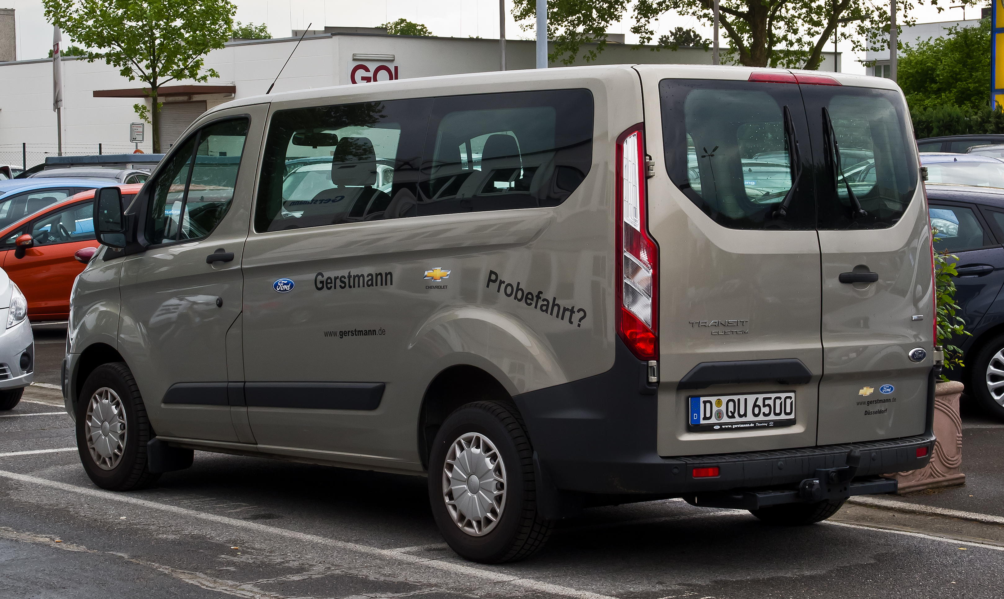 Ford Transit Custom Kombi 2.2 TDCi Trend (VII)